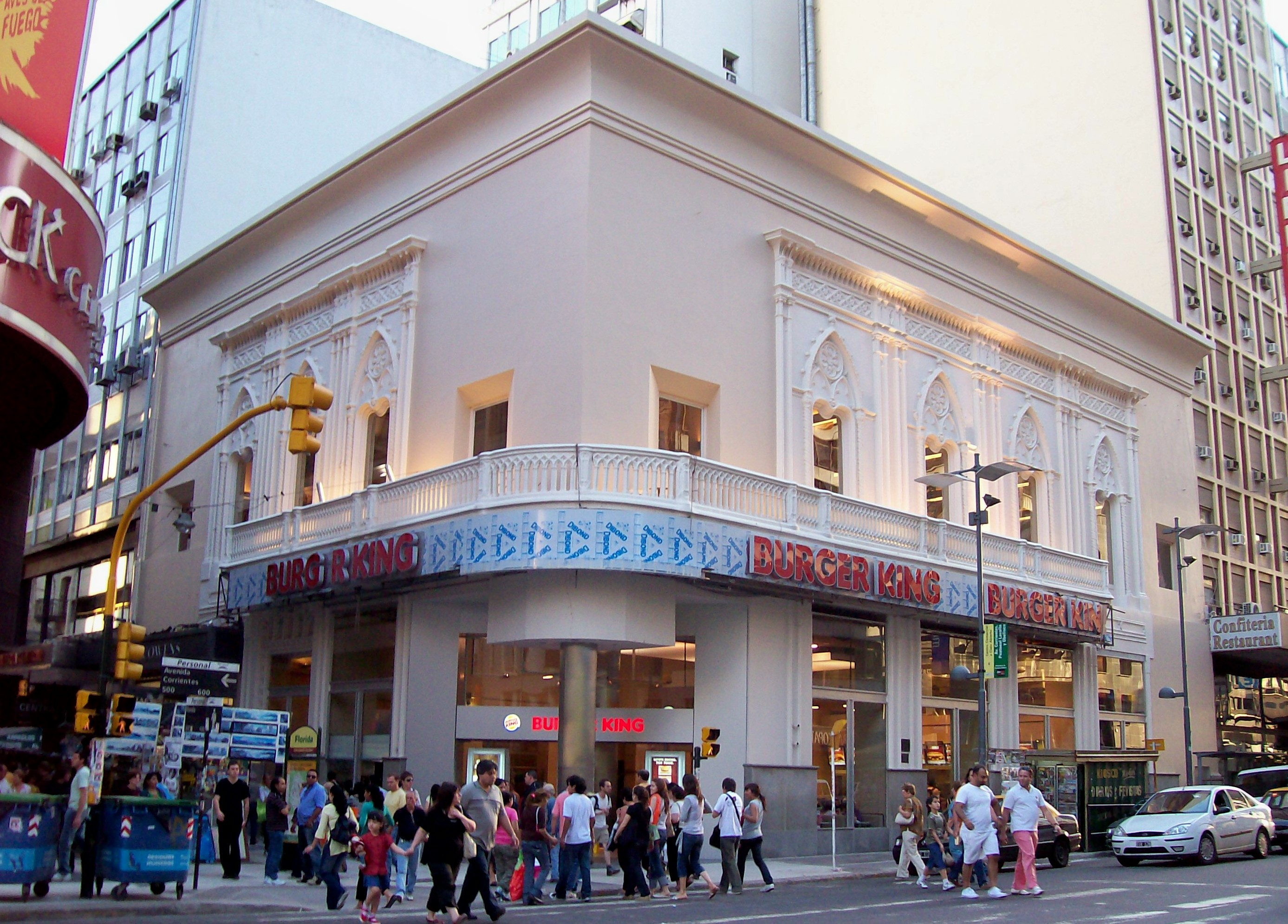 Florida and Corrientes corner, Buenos Aires, Argentina. Today a fast food, this was the building-palace of the argentine family Elortondo de Alvear, belonging to the high society. Style: neogotic venecian.